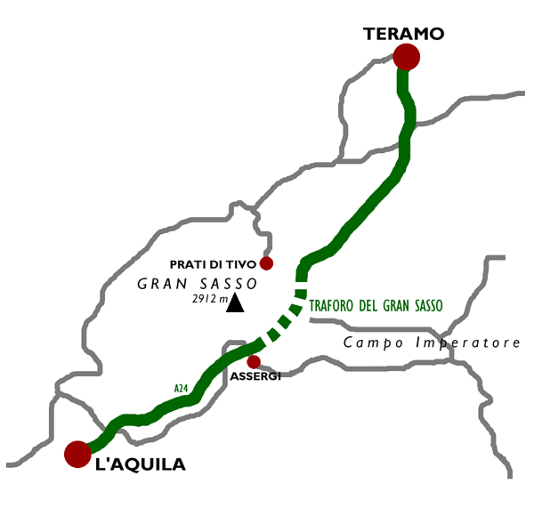 Map of the location of the Gran Sassotunnel Map created by user Idéfix